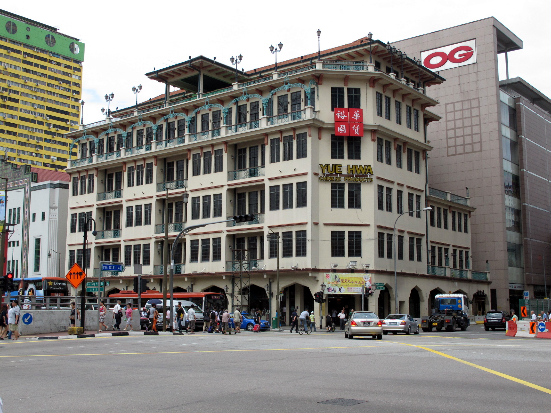 Yue Hwa Chinese Products Singapore Store 裕華國貨於新加坡分店